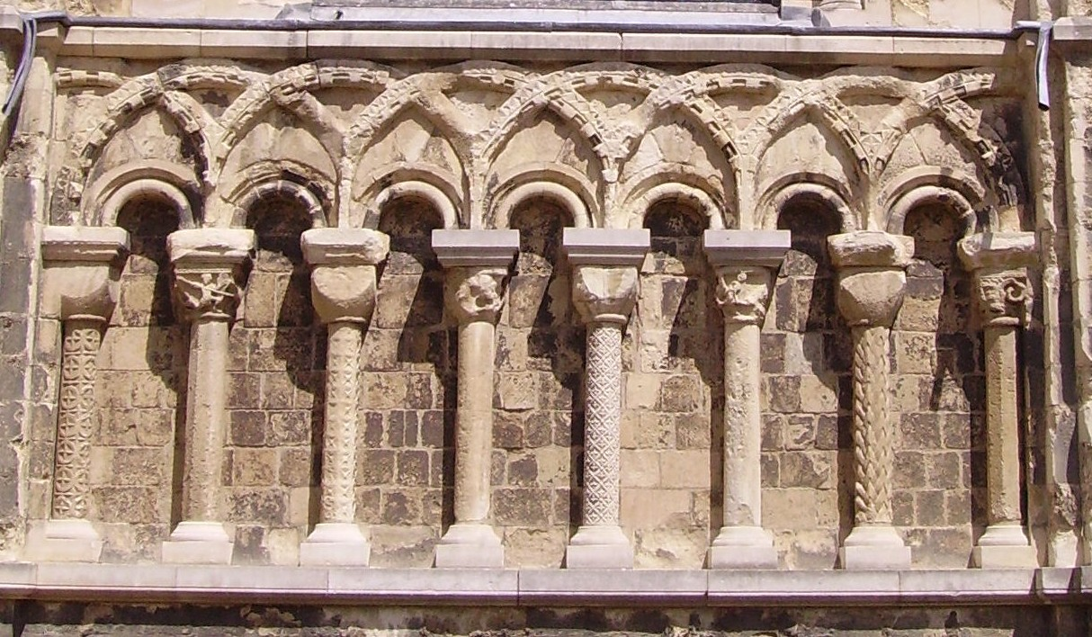 Canterbury cathedral: restored Norman blind arcade